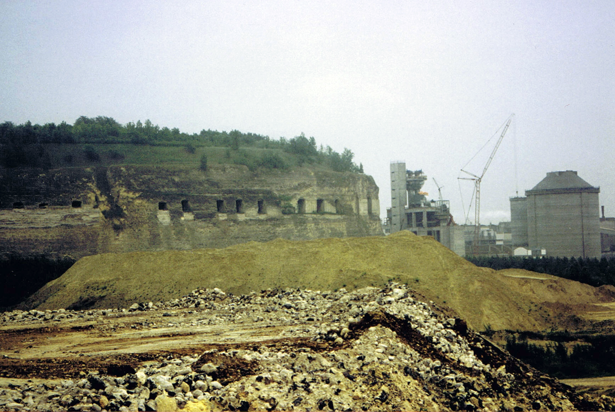 Caves and cement plant of Sint Pietersberg/Maastricht